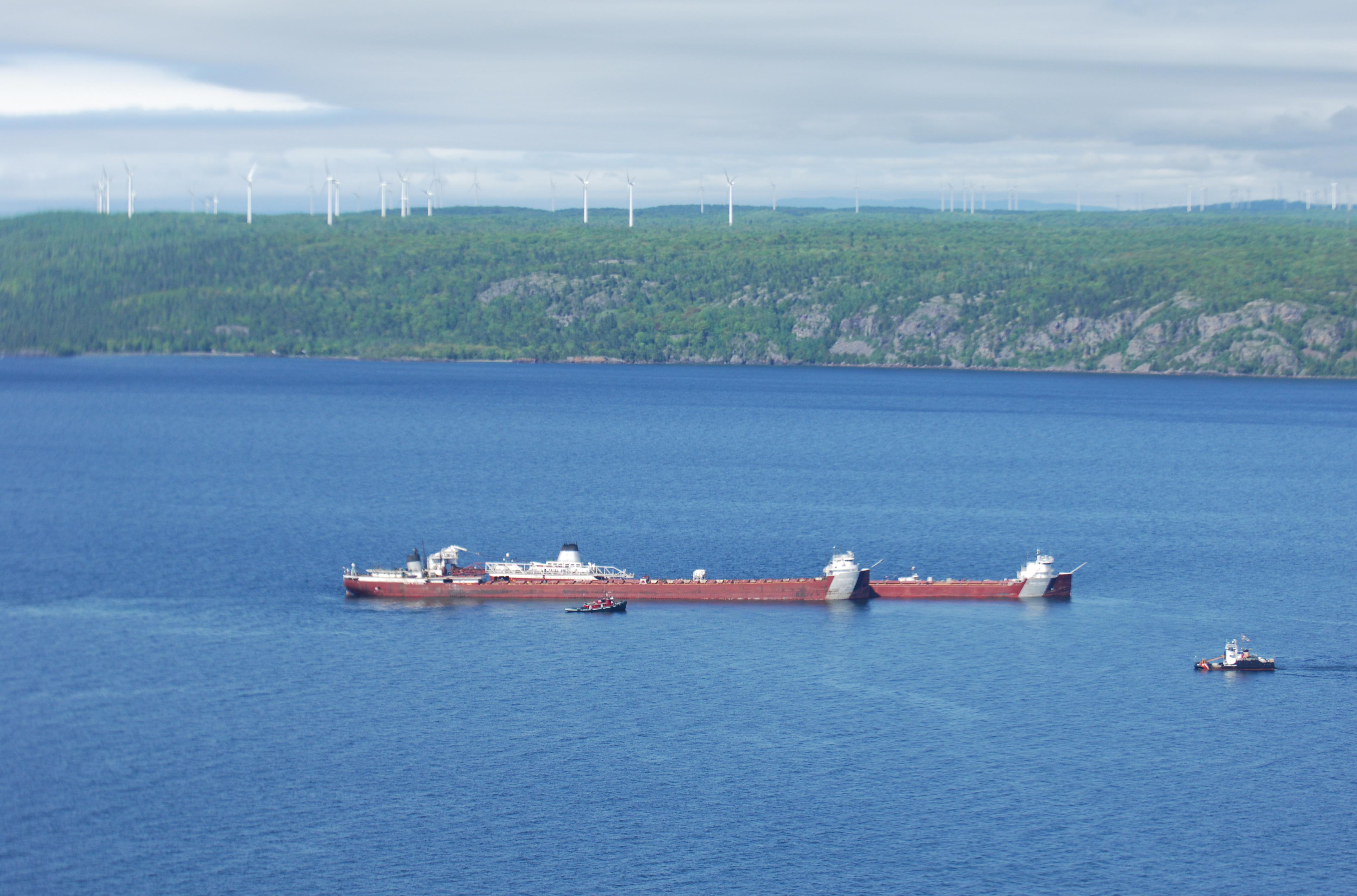 The motor vessel Phillip R. Clarke arrives on scene with the motor vessel Roger Blough, which ran aground May 27, near Gros Cap Reefs Light in Lake Superior, June 2, 2016. The Clarke is scheduled to remove some of the taconite from the Blough in order to lighten the Blough so it can be refloated. (Photo courtesy of Transport Canada) Unit: U.S. Coast Guard District 9